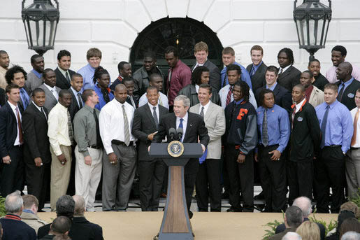 Work of the US Government, posted on the White House's website.